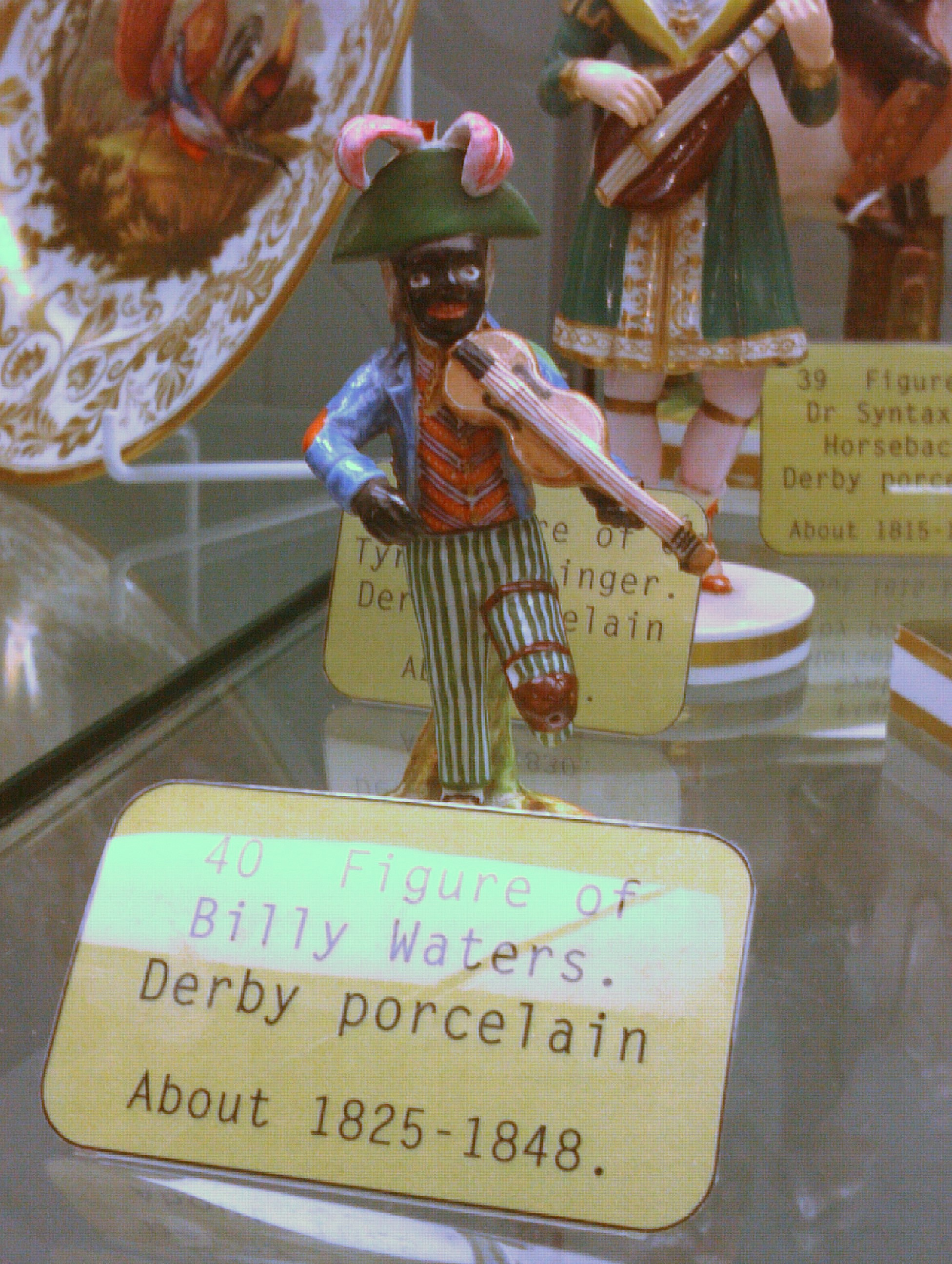 Existing photo by Victuallers color corrected.